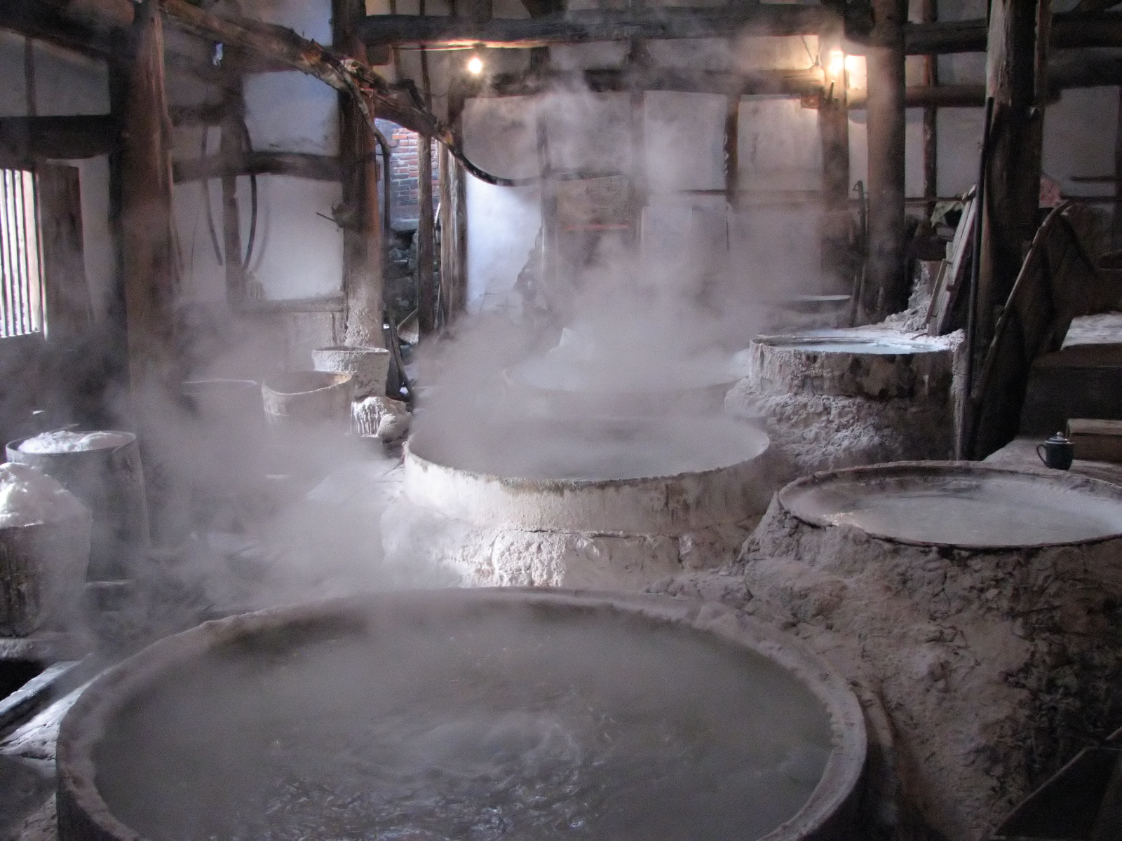 Brine being boiled down to produce salt at the Xinhai Well in Zigong, China. I took this photo in 2006 (Art Yang)